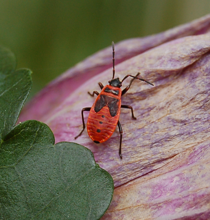 Gendarme - Pyrrhocoris apterus